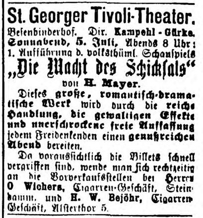 Newspaper announcement of the premiere of Hermann Alois Mayer’s play Die Macht des Schicksals in the St. Georg Tivoli Theatre in Hamburg, Germany.